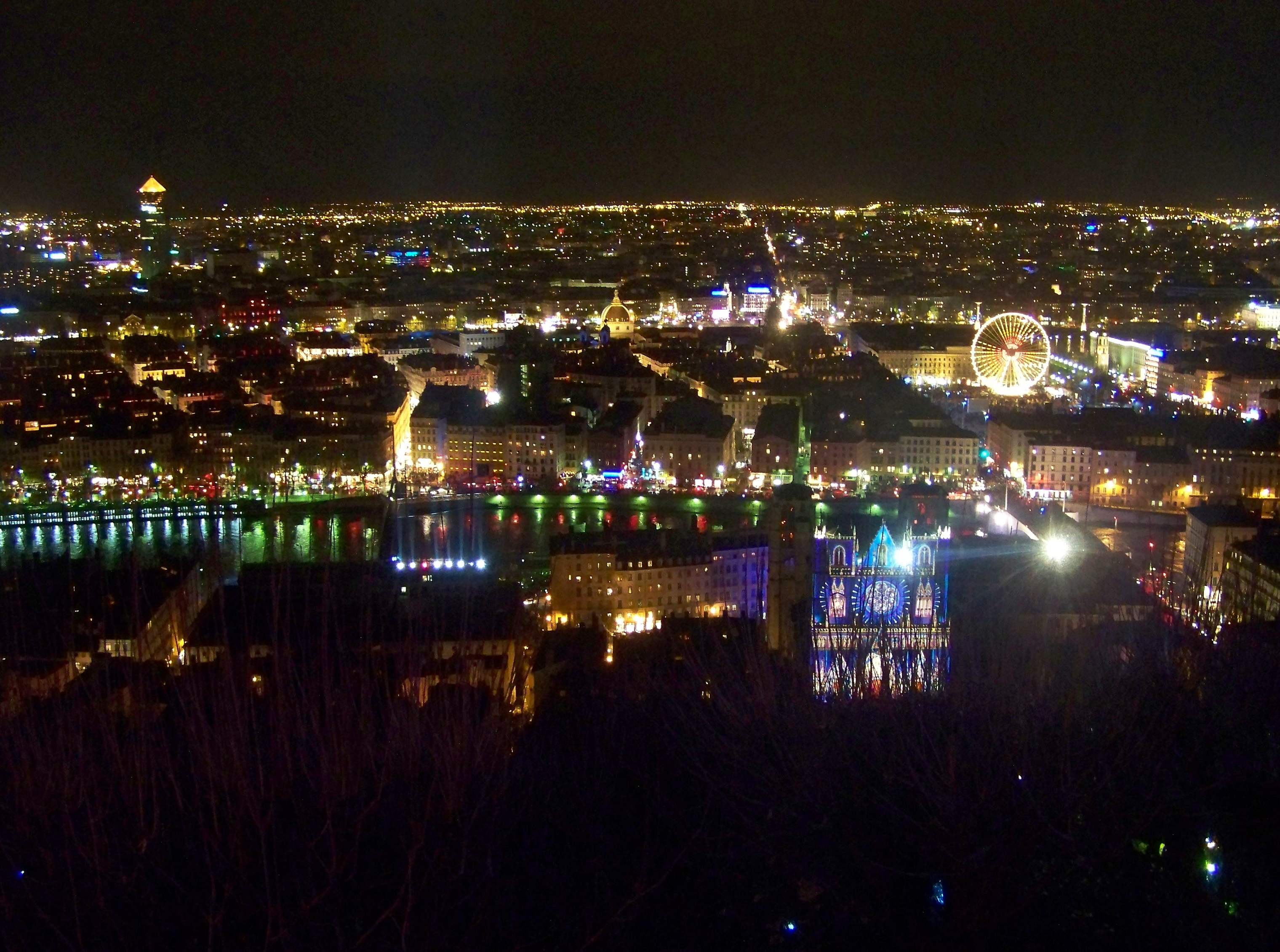 Panoramic sight of Lyon (Rhône, France) from Fourvière, during the « Fête des Lumières » festival of Lights, in december 2008.